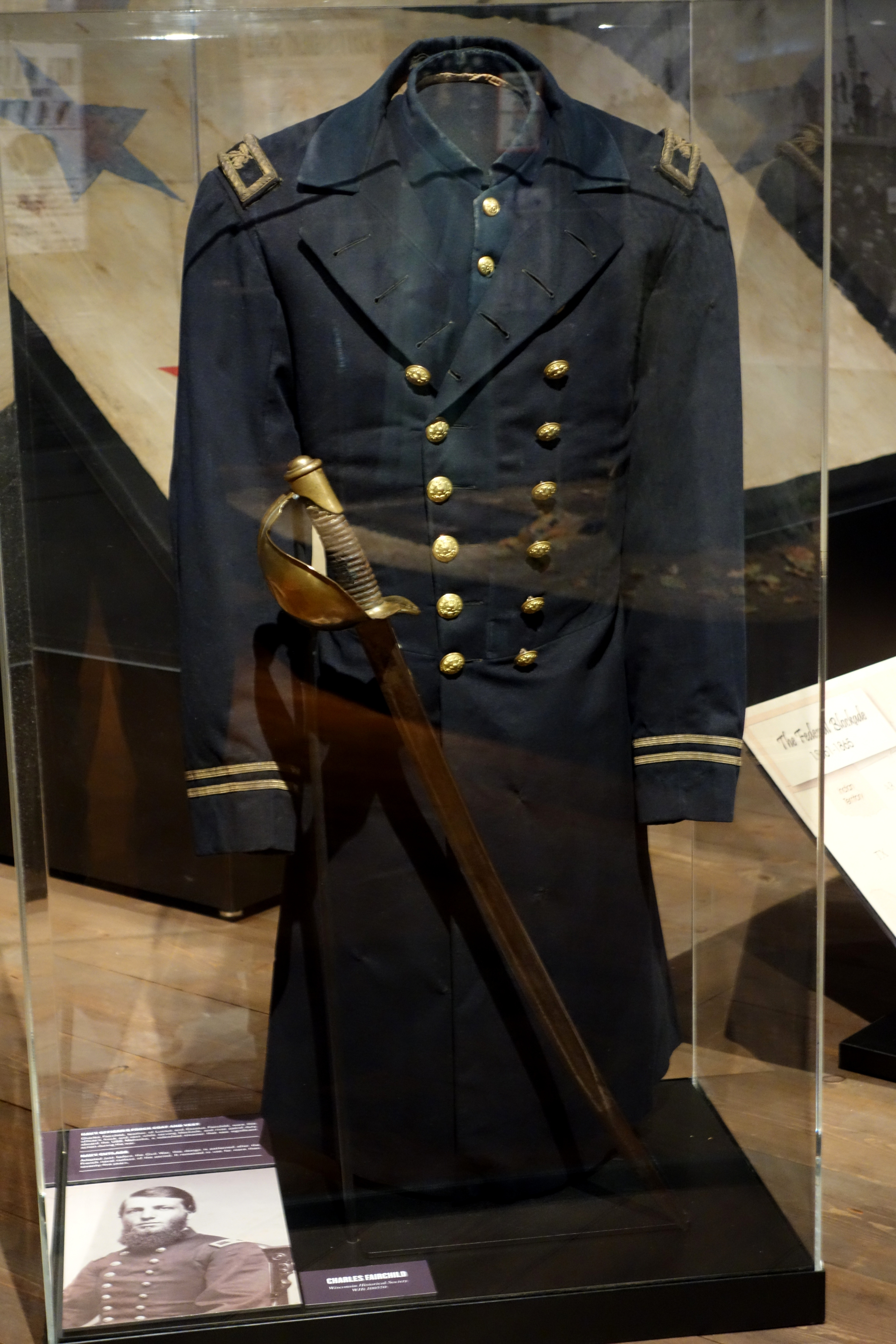 Exhibit in the Wisconsin Veterans Museum, Madison, Wisconsin, U.S. This item is old enough so that it is in the public domain.